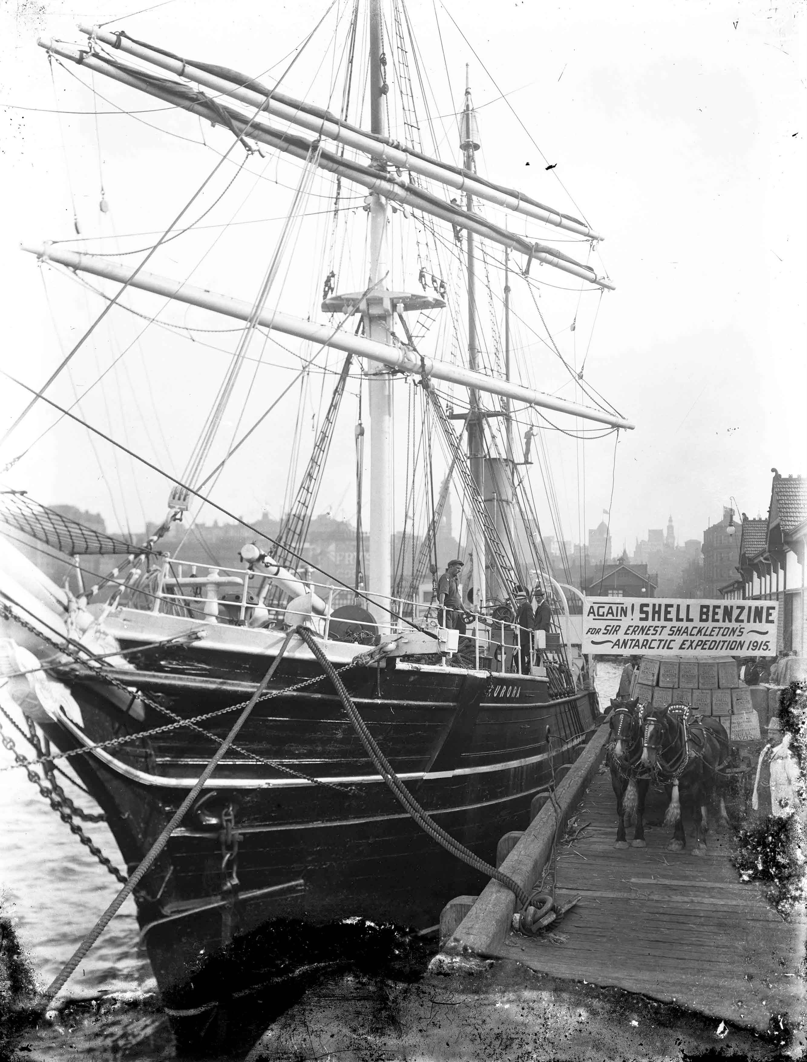 AURORA berthed in Sydney Harbour, Circular Quay West, before Ernest Shackleton's Antarctic expedition The 386 ton barquentine-rigged sealer AURORA was built in Dundee in 1876. The vessel was used by Sir Douglas Mawson on his Australasian Antarctic expedition of 1911-1914. In 1914 AURORA underwent a refit in Sydney before being used to transport Sir Ernest Shackleton's Ross Sea party during the expedition of 1914-1917. During this time AURORA was beset in the ice and drifted for 9 months in the Ross Sea. In 1917 the vessel was used to rescue the surviving members of the Ross Sea party from Cape Evans.